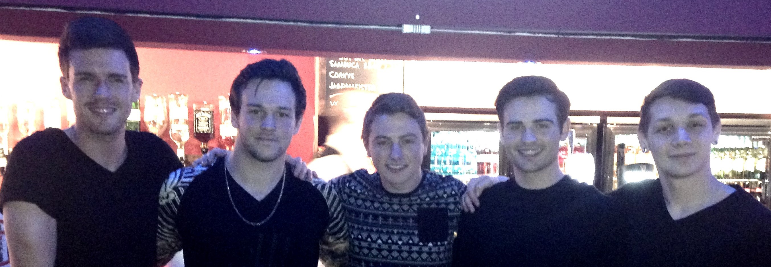 Photo of Collabro taken on 27 April 2014 (L to R: Jamie, Richard, Matt, Michael and Thomas)